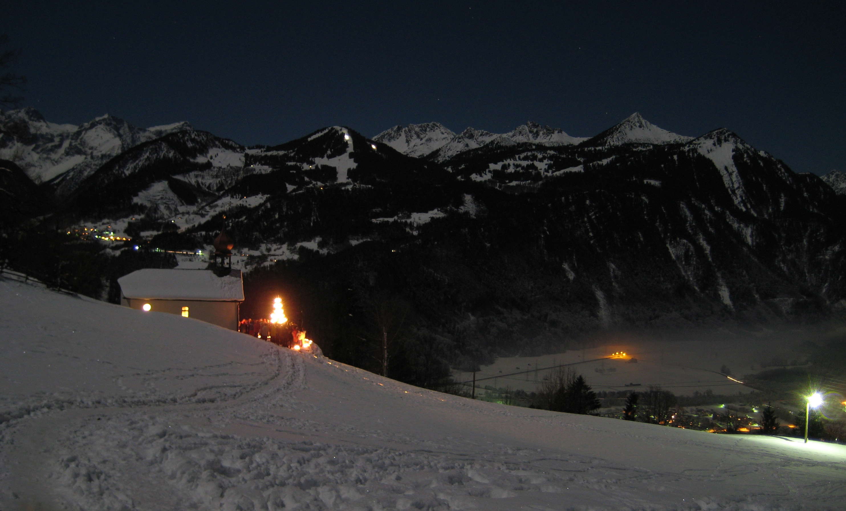 Weihnachtsmette in der Nacht vom 24. auf den 25. Dezember 2007 in der Bergparzelle Laz in Nüziders / Österreich. Im Hintergrund die Gebirgskette des Rätikons, im rechten unteren Teil der Talboden des Walgau